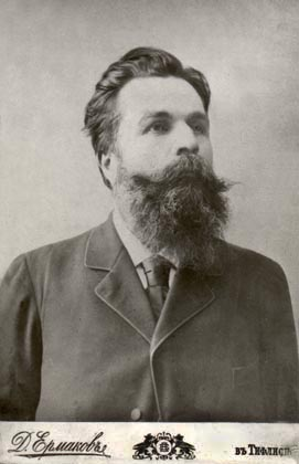 Dimitry Ermakov. 1885 "I love art and worship it. Photographer D. Jermakov. March 3, 1912. Tiflis." Ermakov